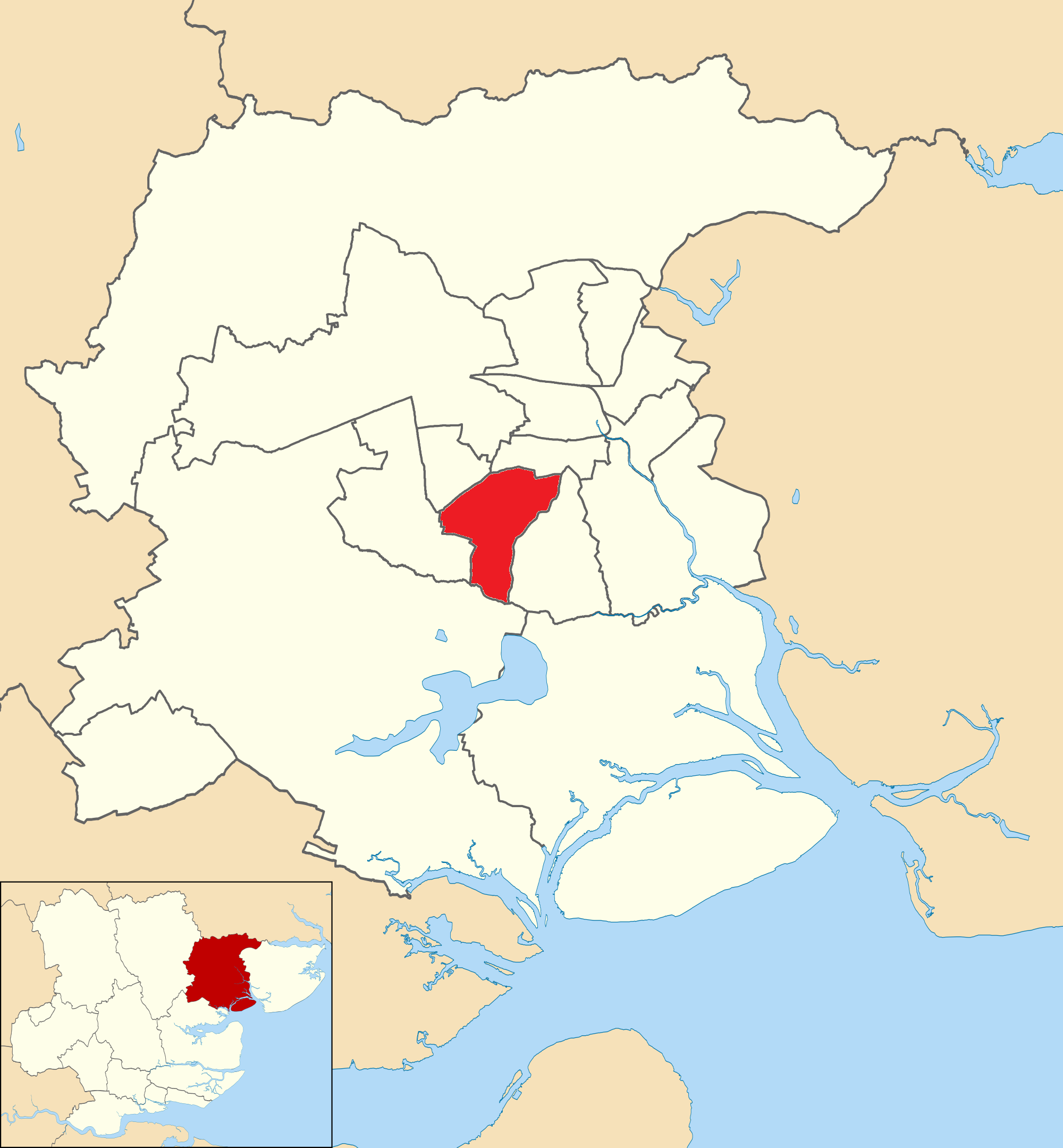 Shrub End ward highlighted within Colchester Borough